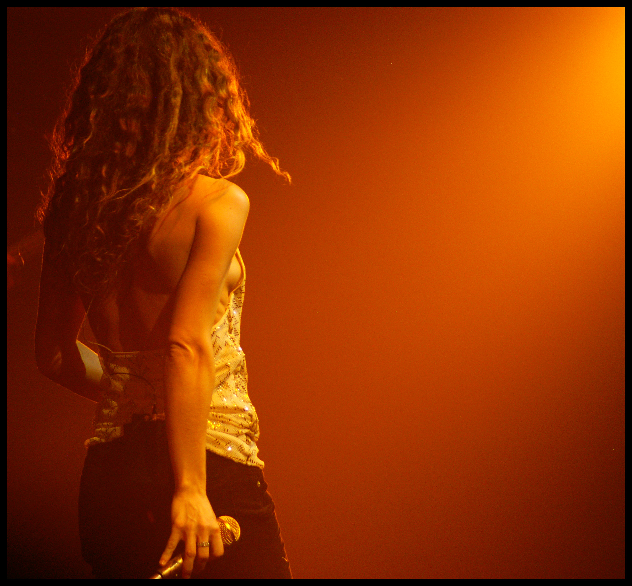 Vanessa Paradis live at Châteauroux (France).Vanessa Paradis @ Tarmac (Châteauroux)